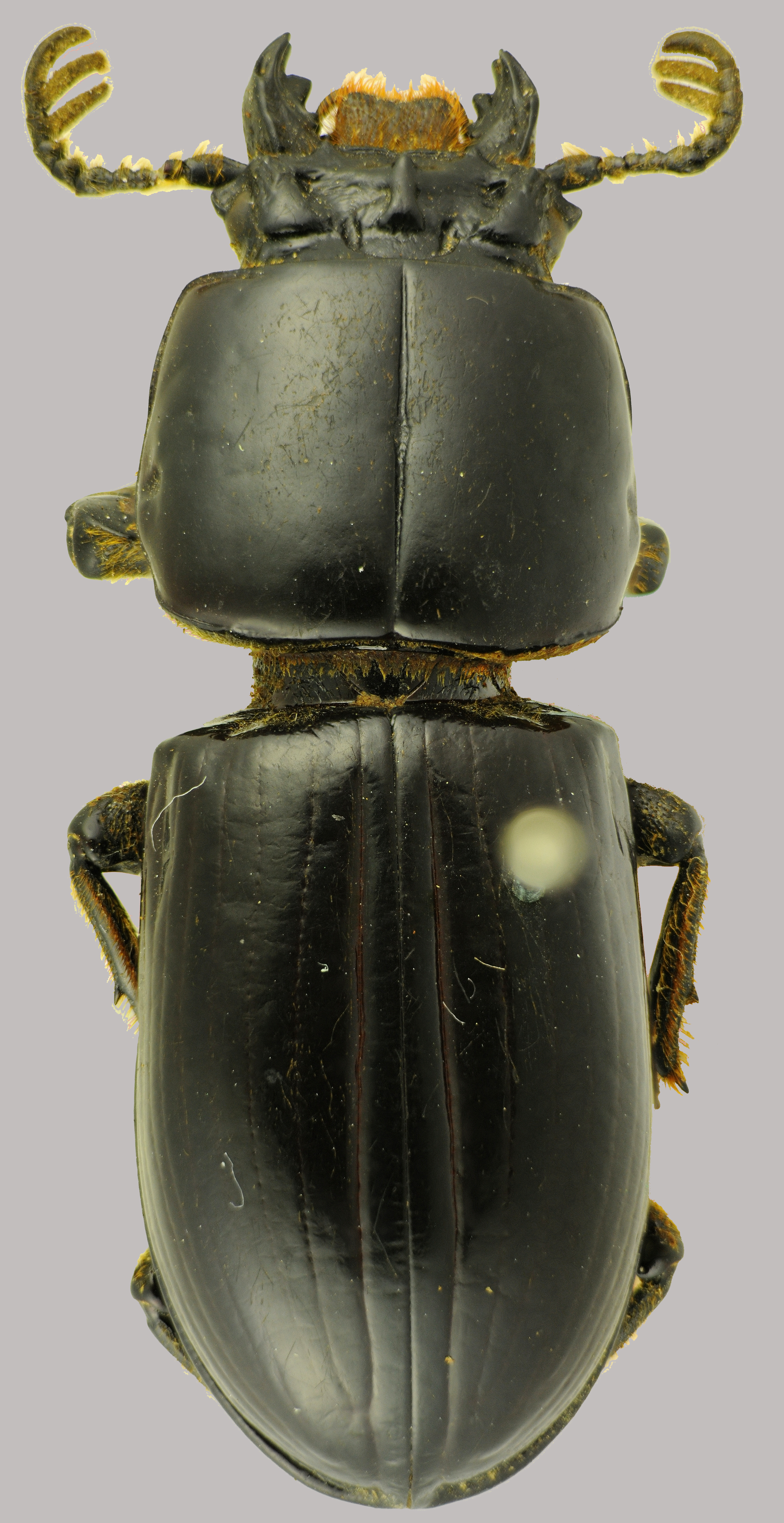 Ogyges laevissimus, Lectotype in Zoologische Staatssammlung Munich (ZSM)